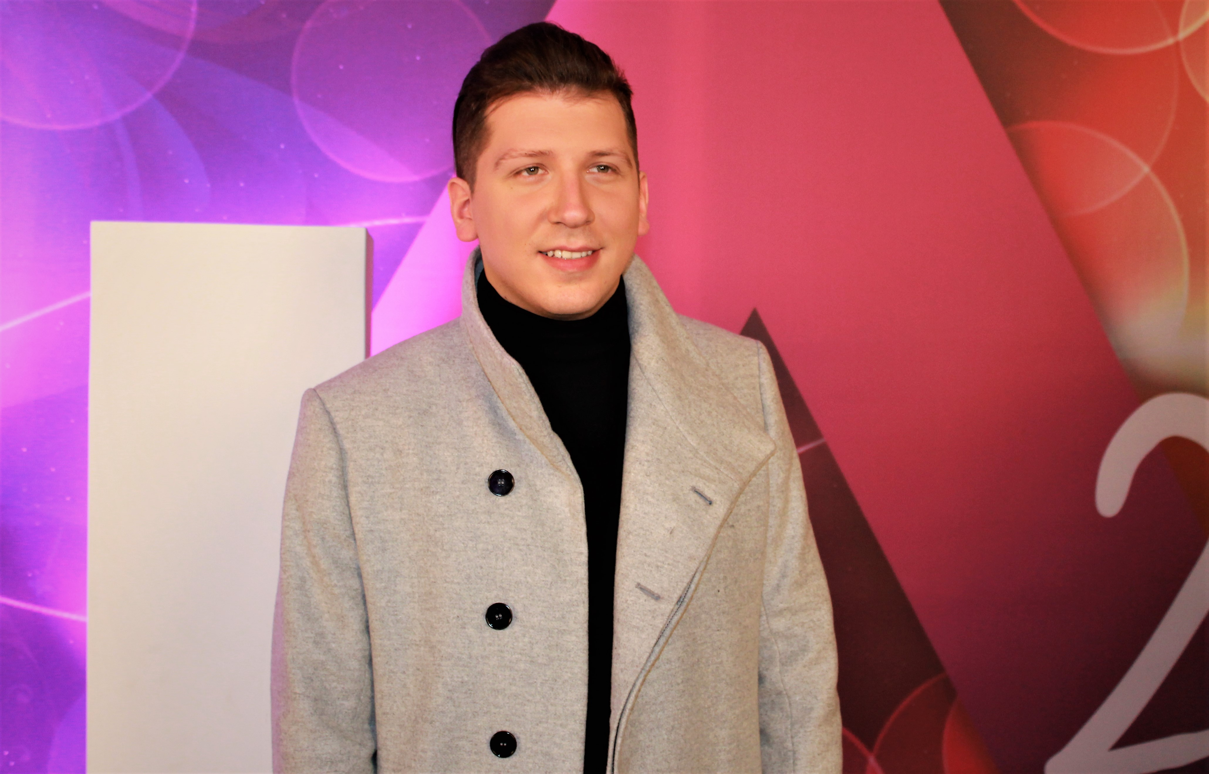 A Dal 2018 participant: Tamás Vastag